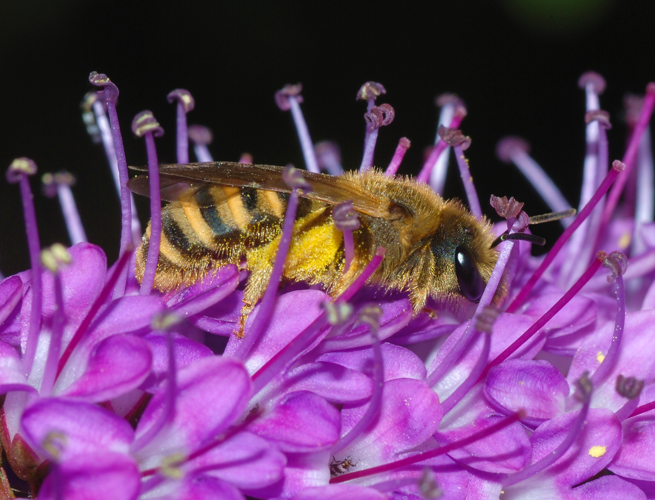 A female bee (Halictus scabiosae).